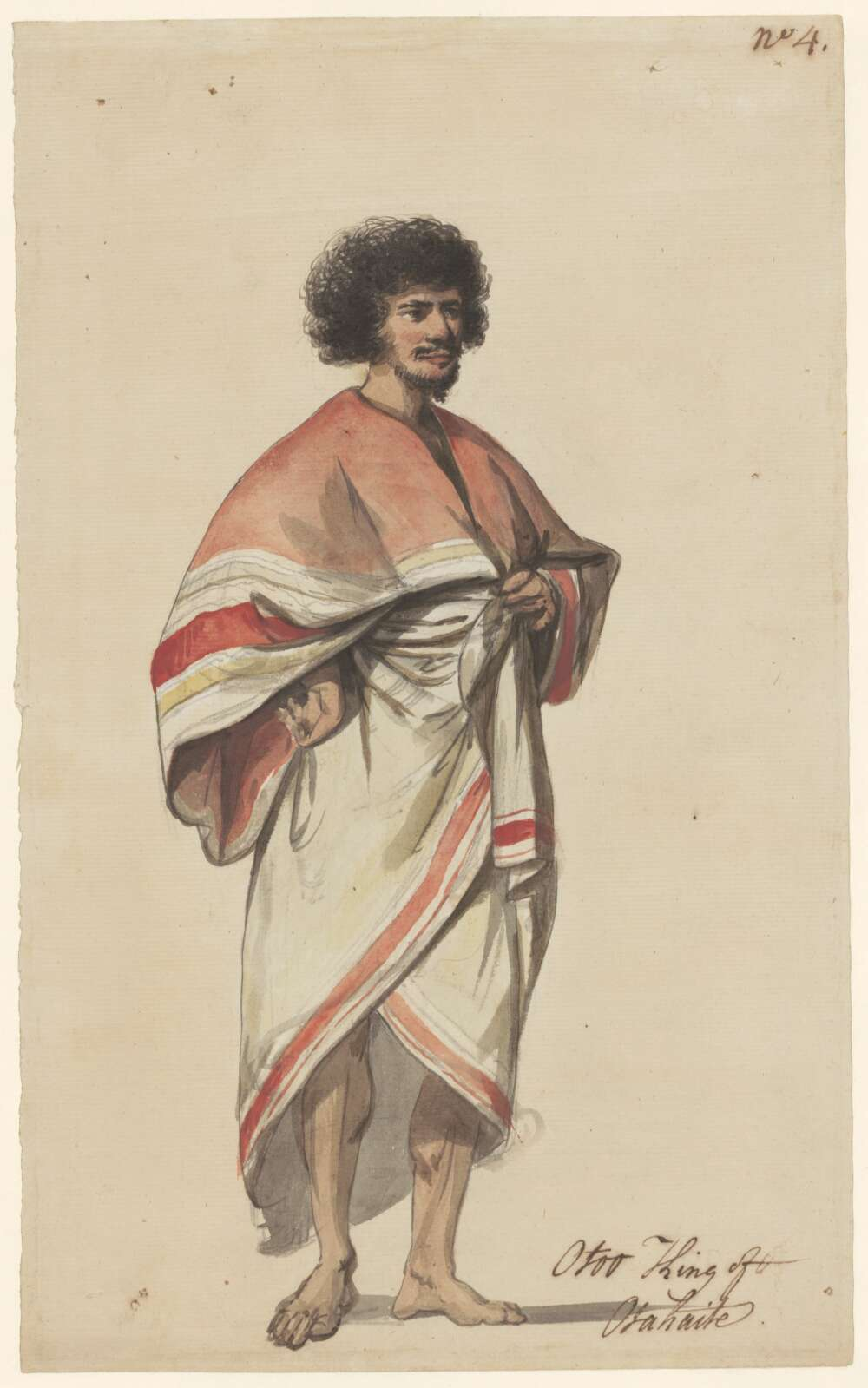 Otoo, King of Otahaite by Philipp Jakob Loutherbourg d. J